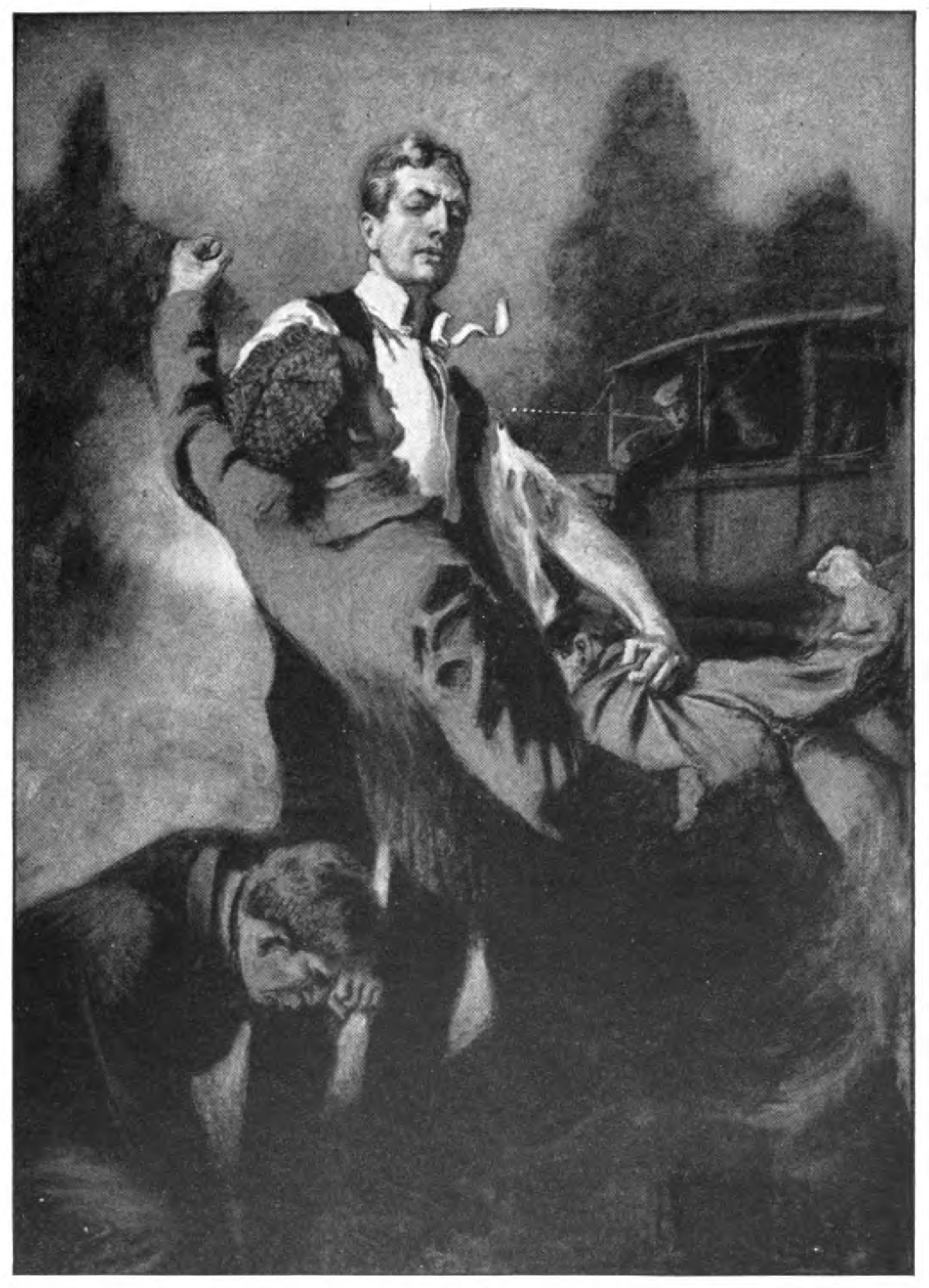 Frontispiece from the 1915 novel "The Yellow Dove", by George Gibbs (Illustration by George Gibbs)